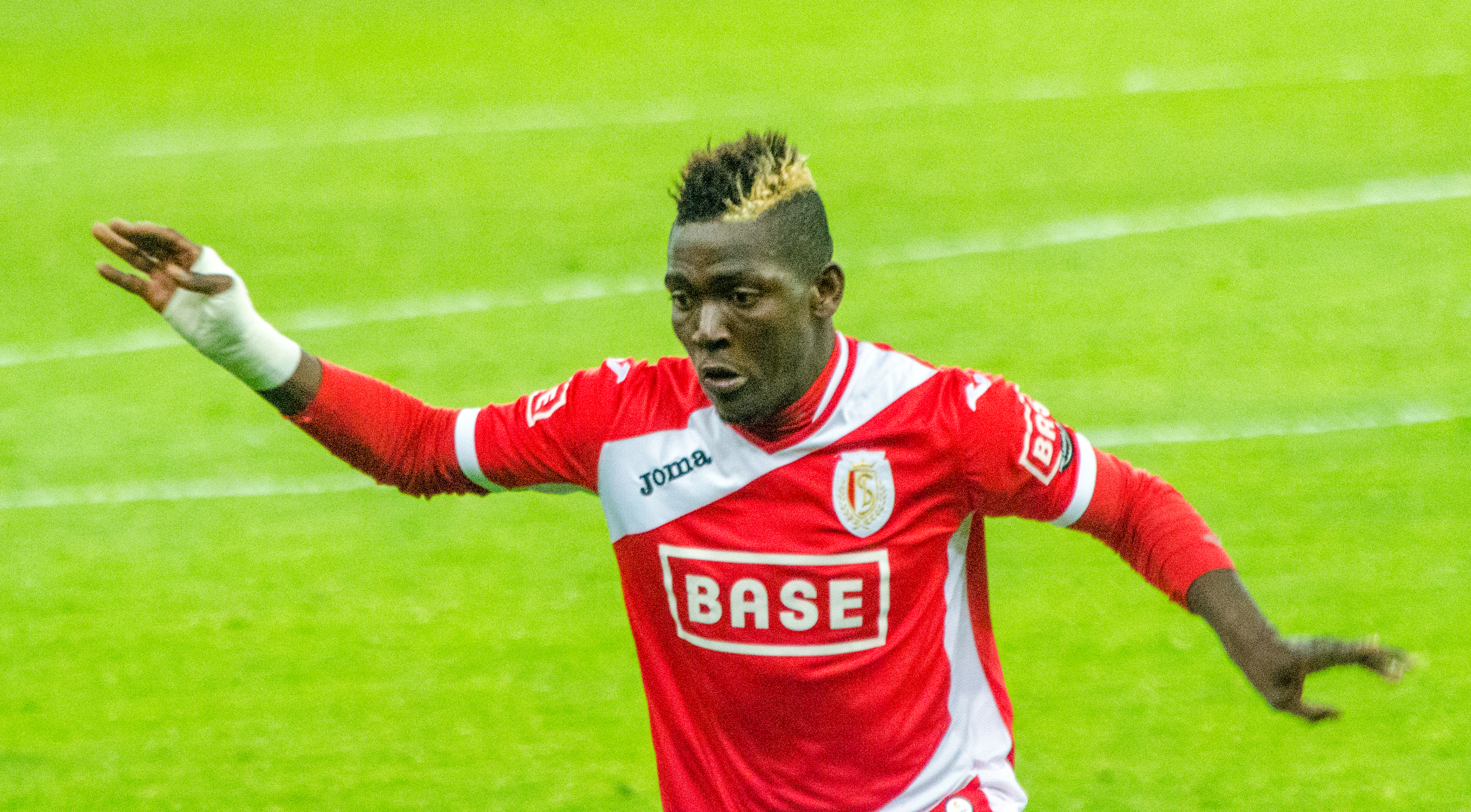 Daniel Opare playing for Standard Liege